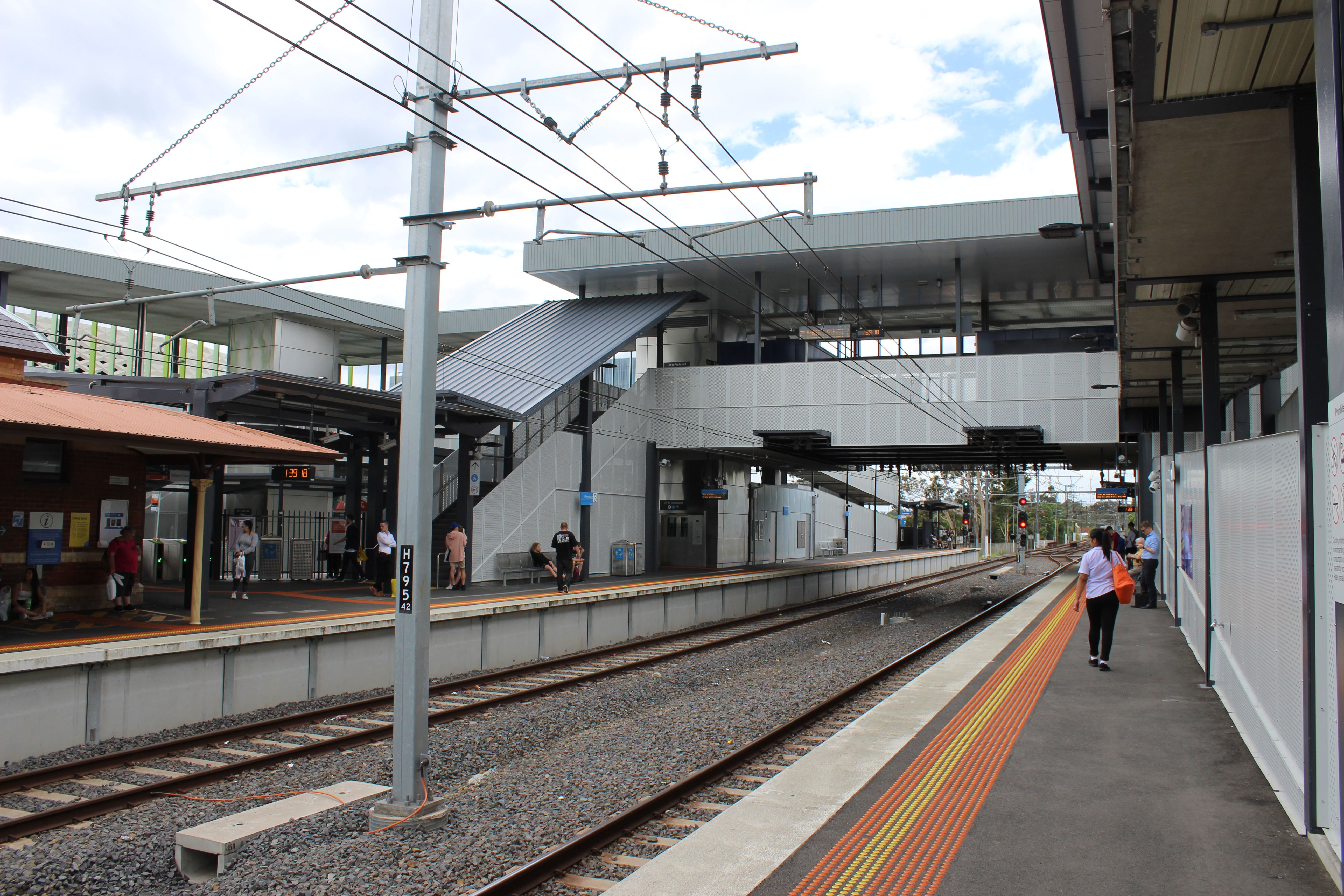 Ringwood Railway Station